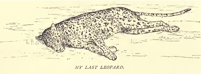 Douglas Hamilton, His last leapord, Feb._8,_1870